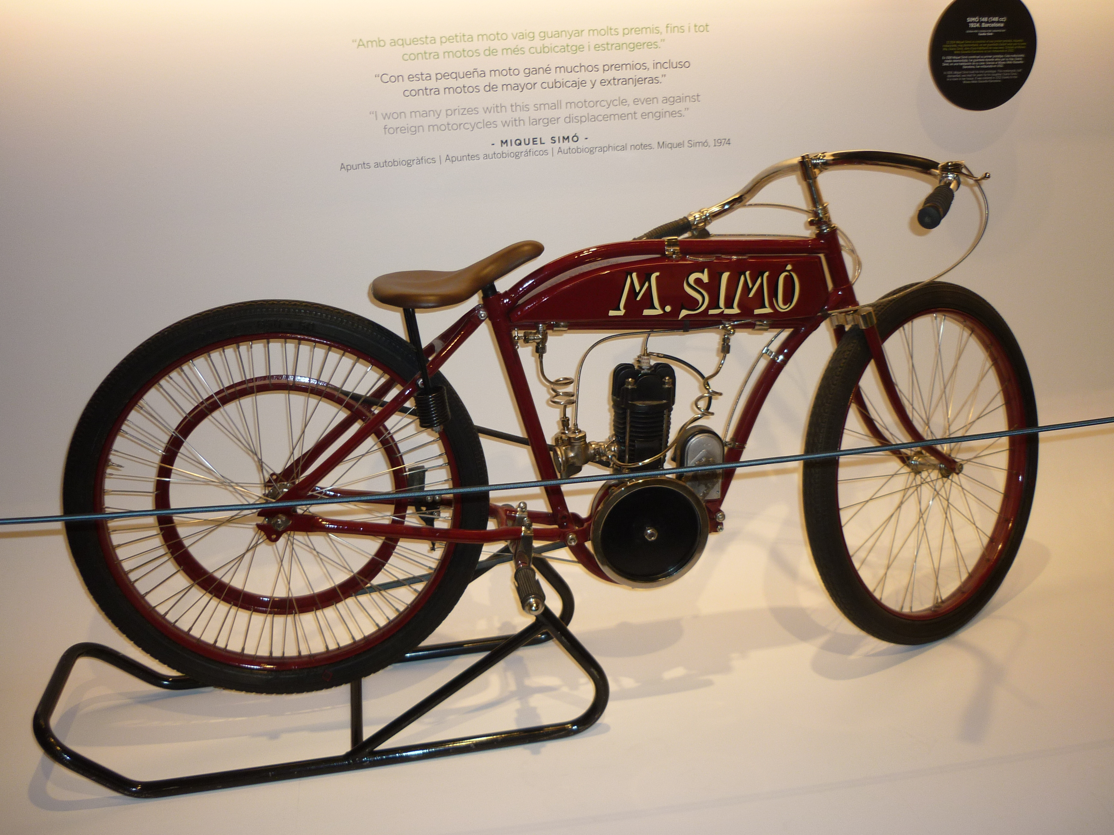 Simó 148cc (1924). The first motorcycle built by Miquel Simó, equipped with an engine made ​​by himself while studying engineering in the Industrial School of Barcelona